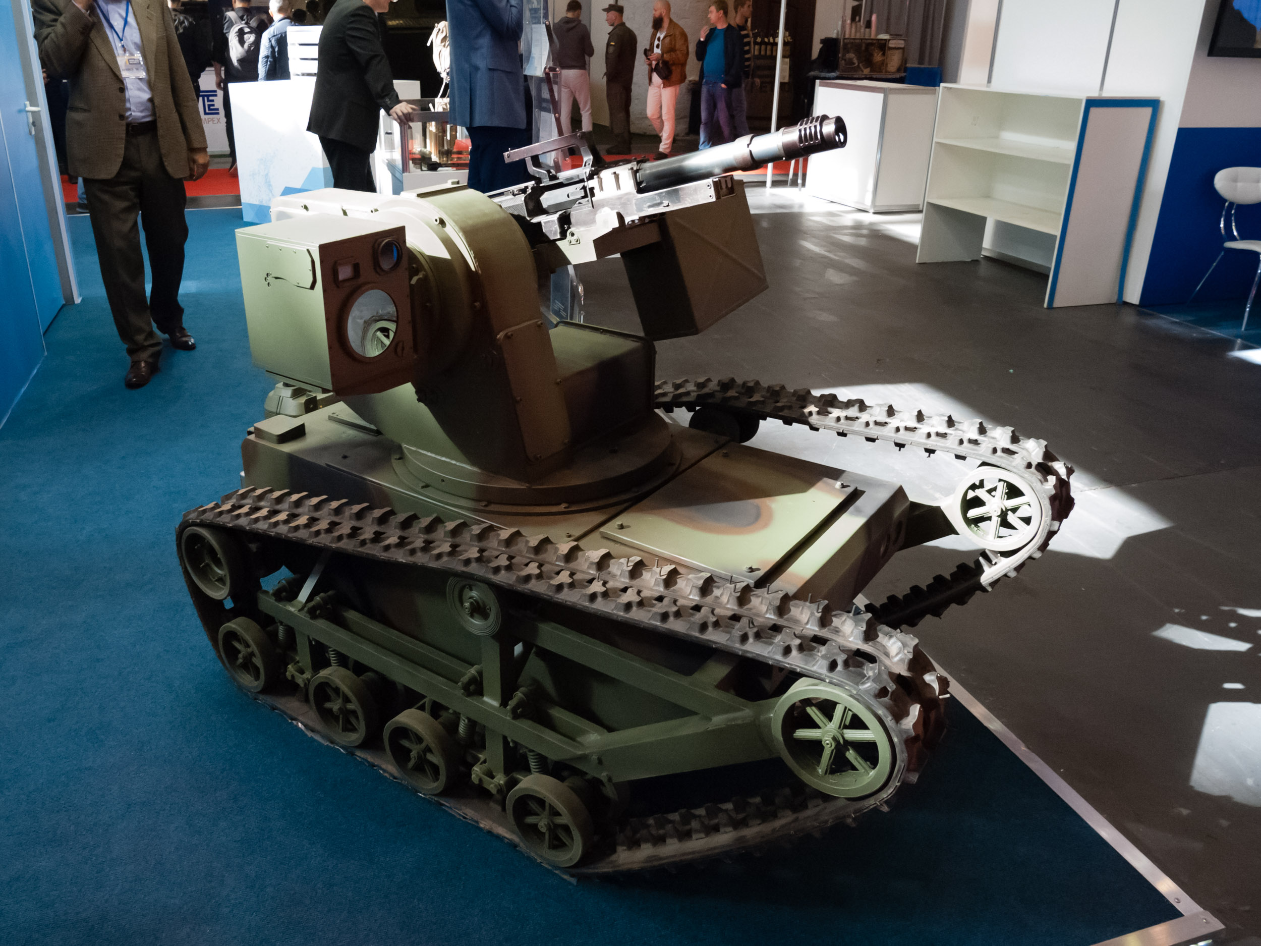 UAG-40 grenade launcher on a Piranha vehicle, 'Zbroya ta Bezpeka' military fair, Kyiv, Ukraine, 2018